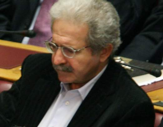 Greek journalist, author and MP (PASOK) Mimis Androulakis, in 2008.